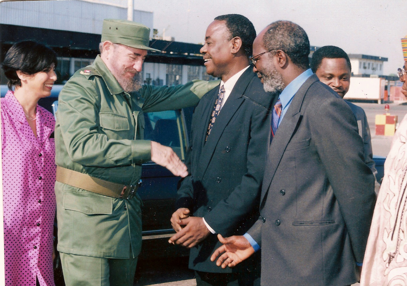 Cuban President Fidel Castro and former Presidential Adviser Onyema Ugochukwu (Center) at Havana, Cuba (Circa 1999).